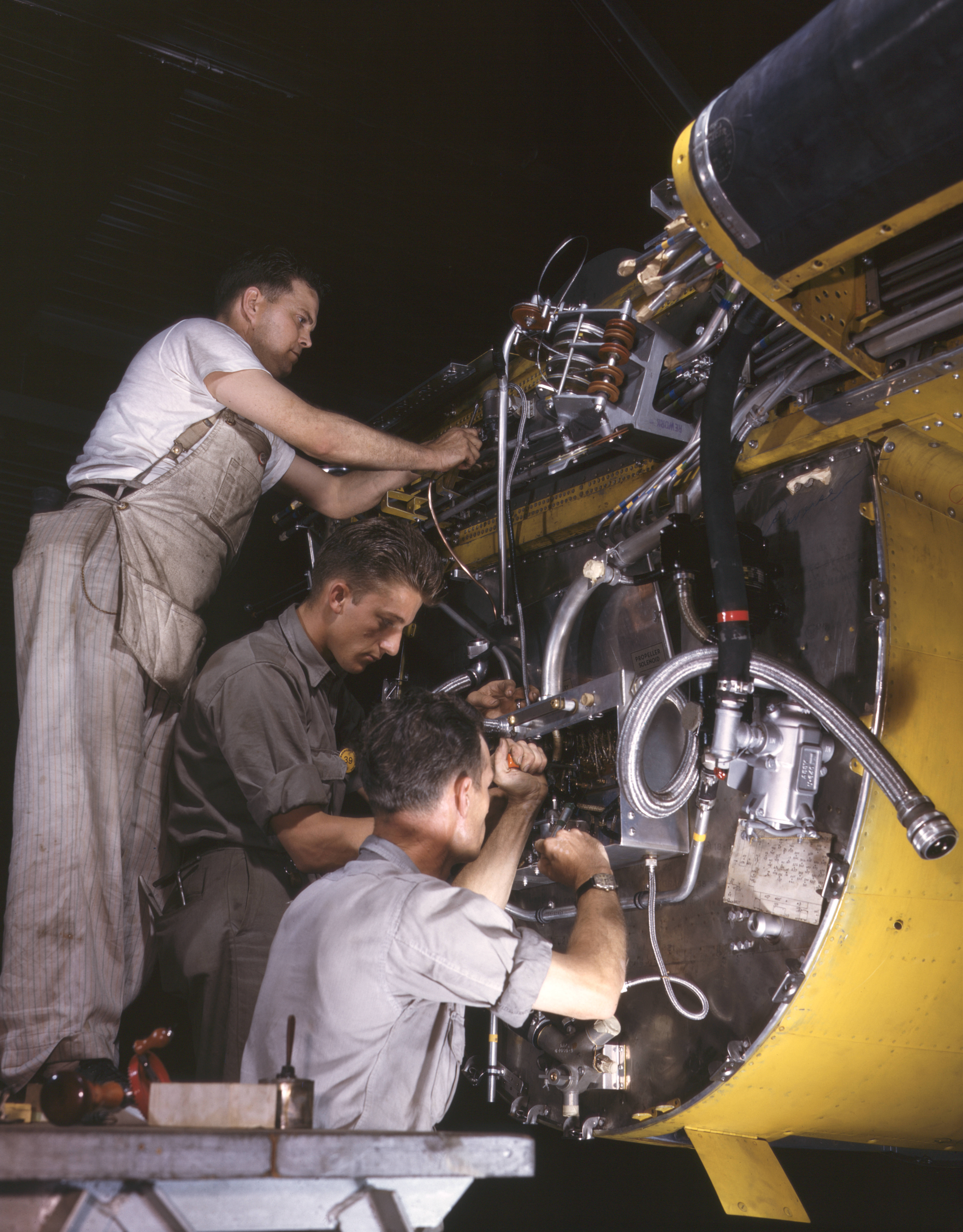 Making wiring assemblies at a junction box on the fire wall for the right engine of a B-25 bomber, North American Aviation, Inc., (Inglewood), Calif. Forward of this wall will be mounted one of the two 1,700-horsepower Wright Whirlwind engines.